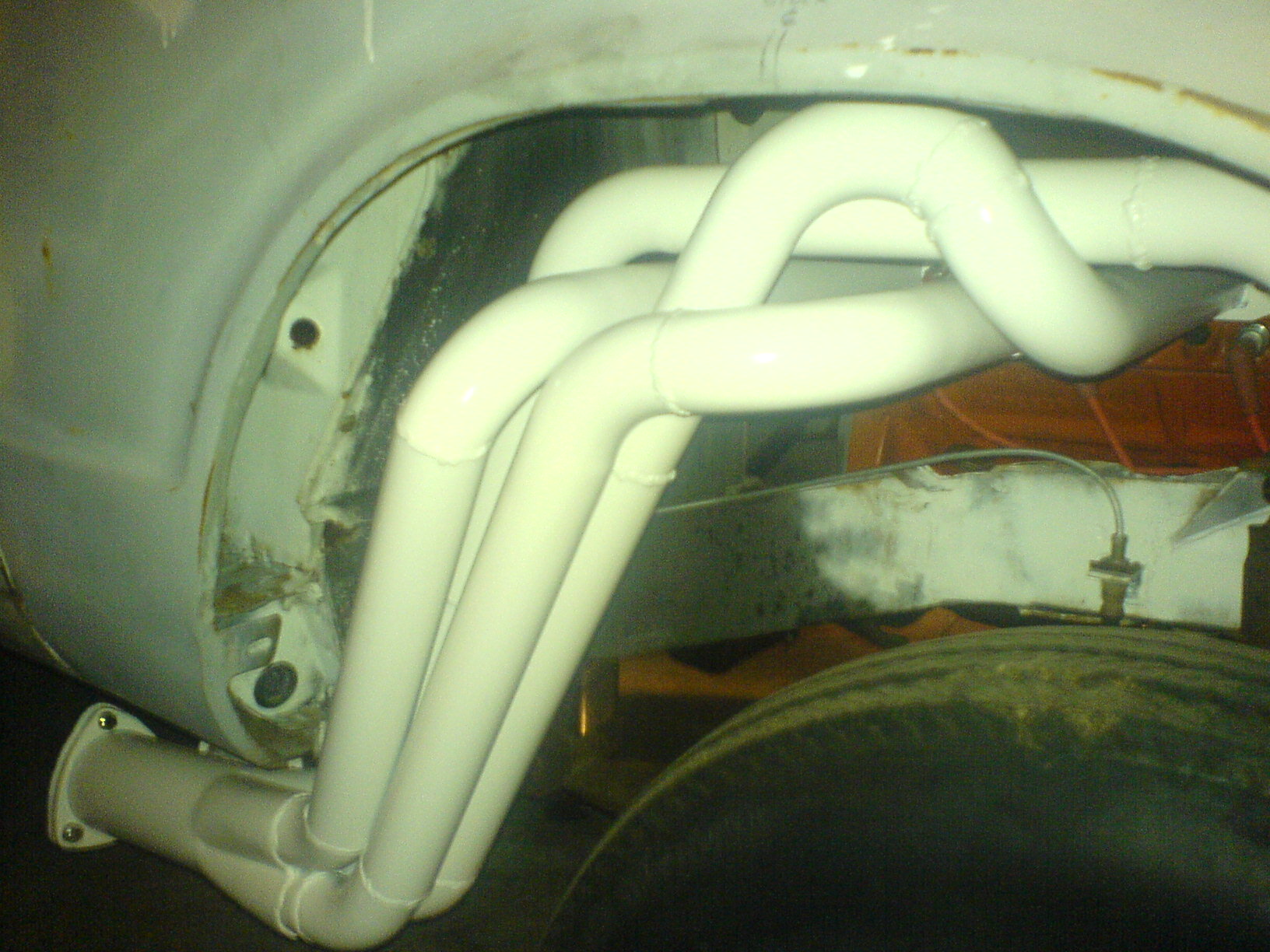 Headers on a 440 Max Wedge